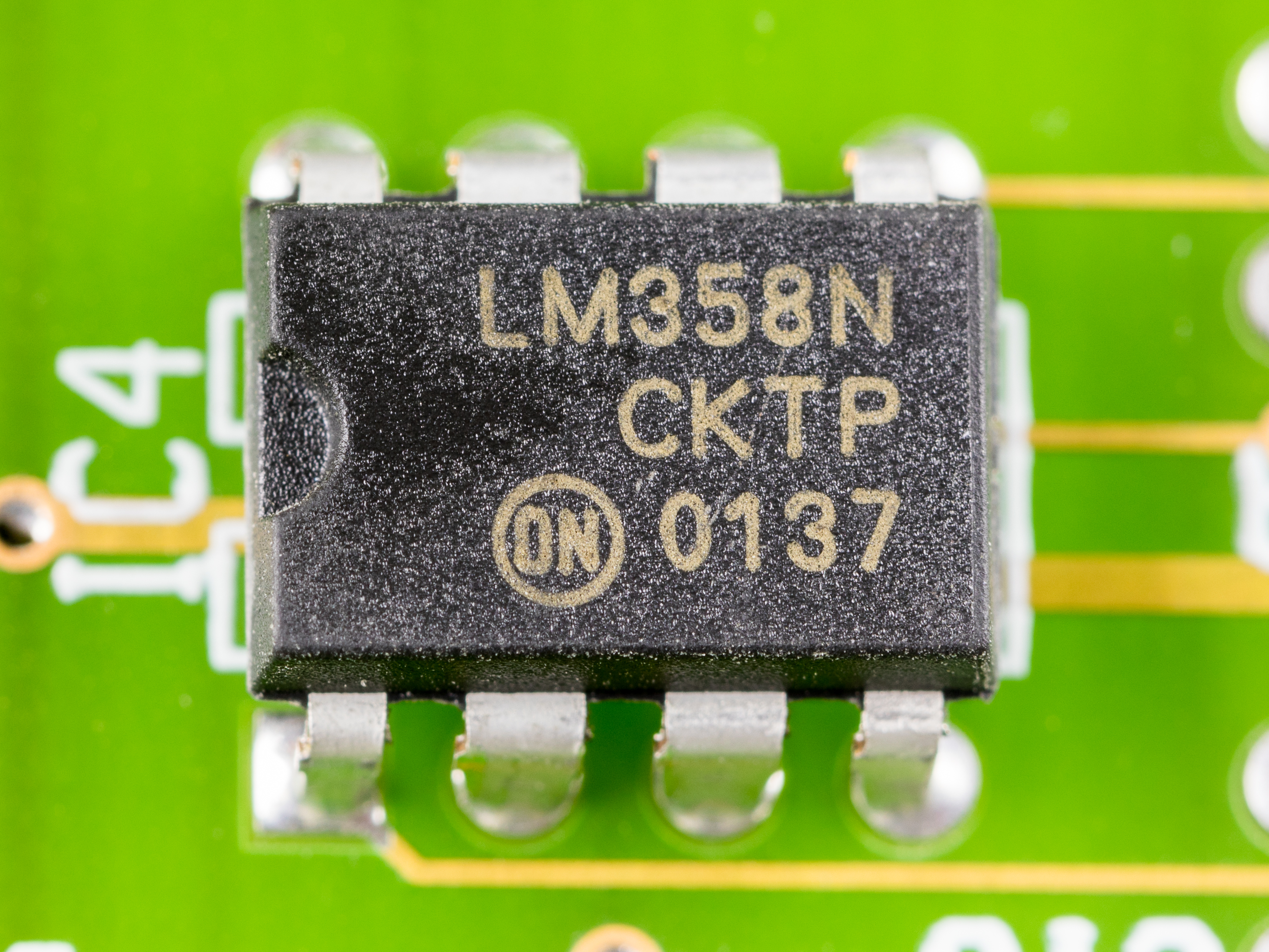 Nedap ESD1 - power supply board 2 - ON Semiconductor LM358N - operational amplifier